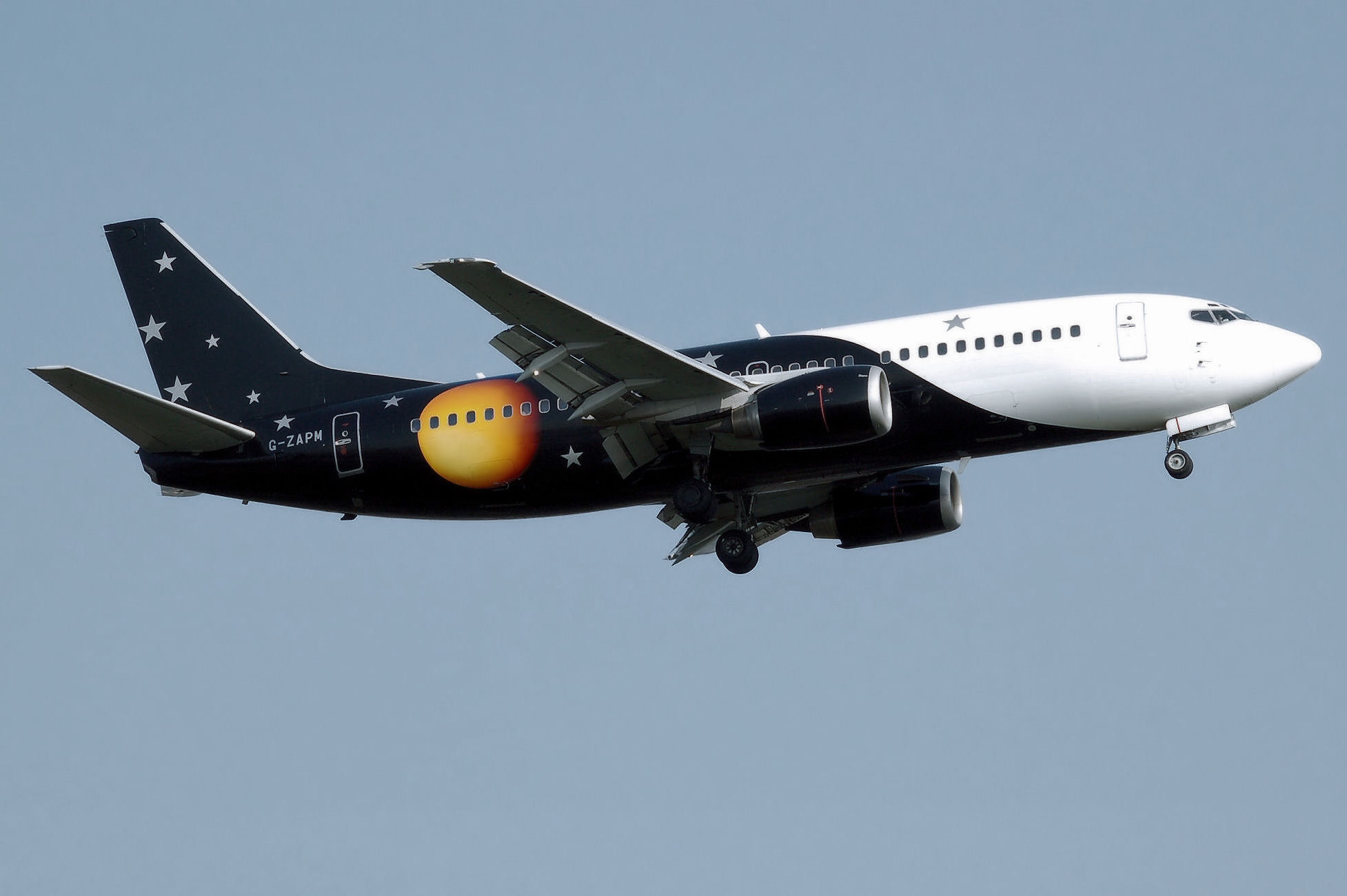 Titan Airways Boeing 737-300 (G-ZAPM) lands at London Heathrow Airport, England.